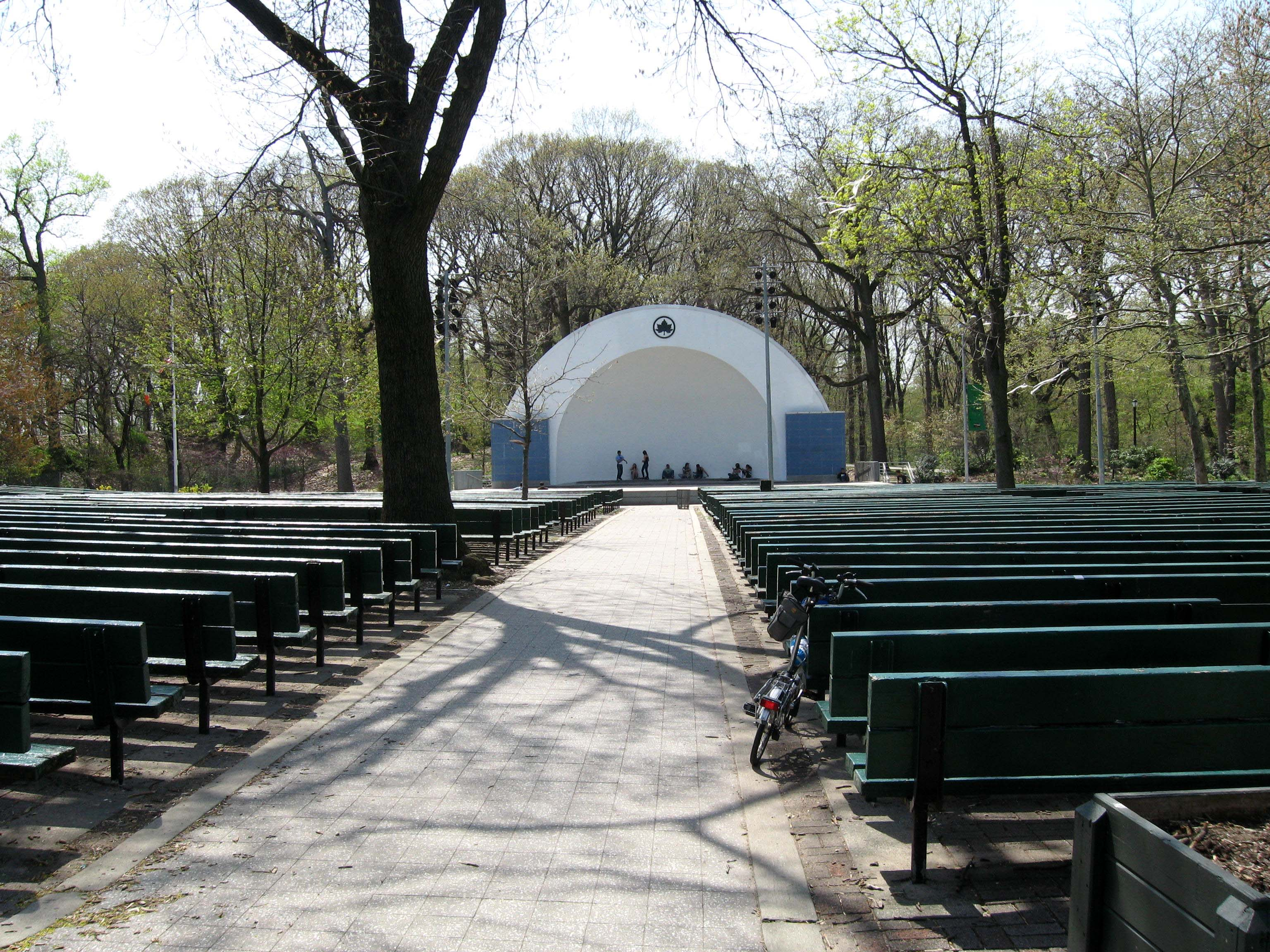 Looking west at Forest Park bandshell, a quarter mile west of Woodhaven Boulevard on a sunny springtime afternoon.